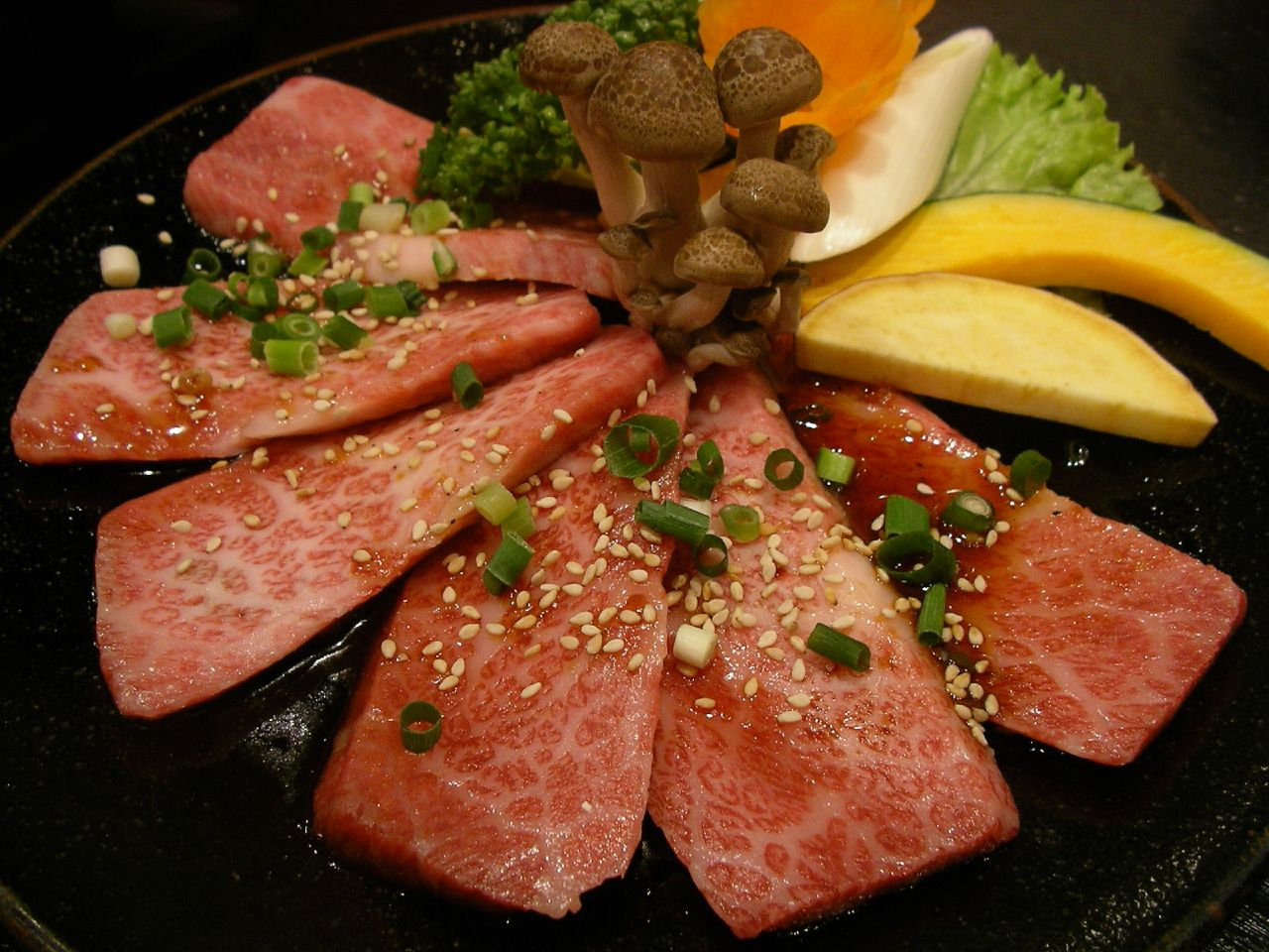 Korean beef barbeque.